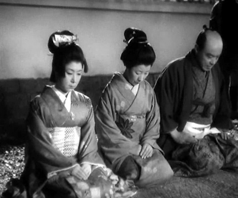 Screenshot from The Life of Oharu, 1952 film. From left to right: Oharu, her mother (Tsukie Matsuura) and father (Ichirō Sugai).